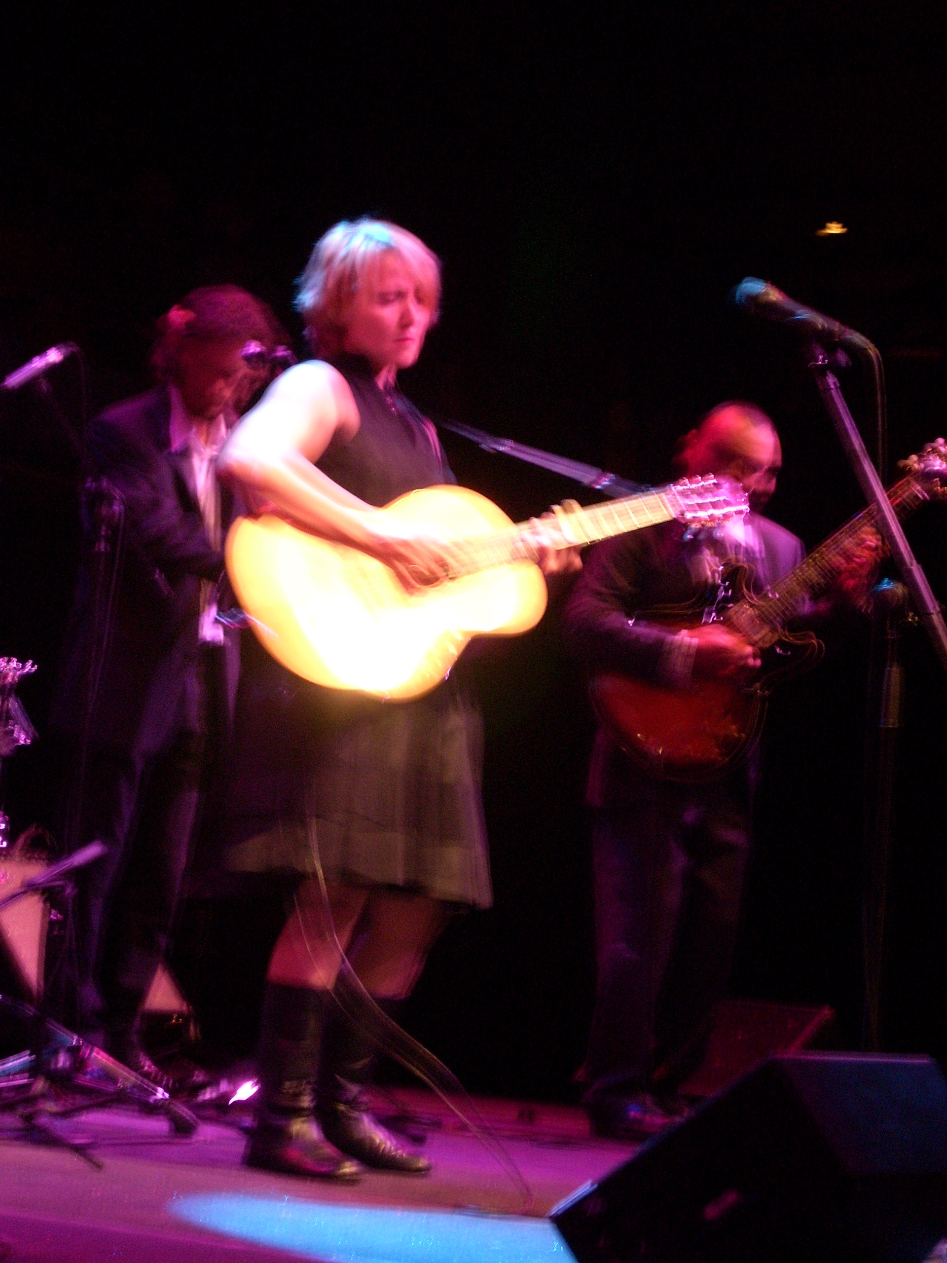 Zulya and The Children of the Underground, as part of "Russian Roulette" - a celebration of Russian culture in Australia. At The Studio at Sydney Opera House, 2008-03-15.